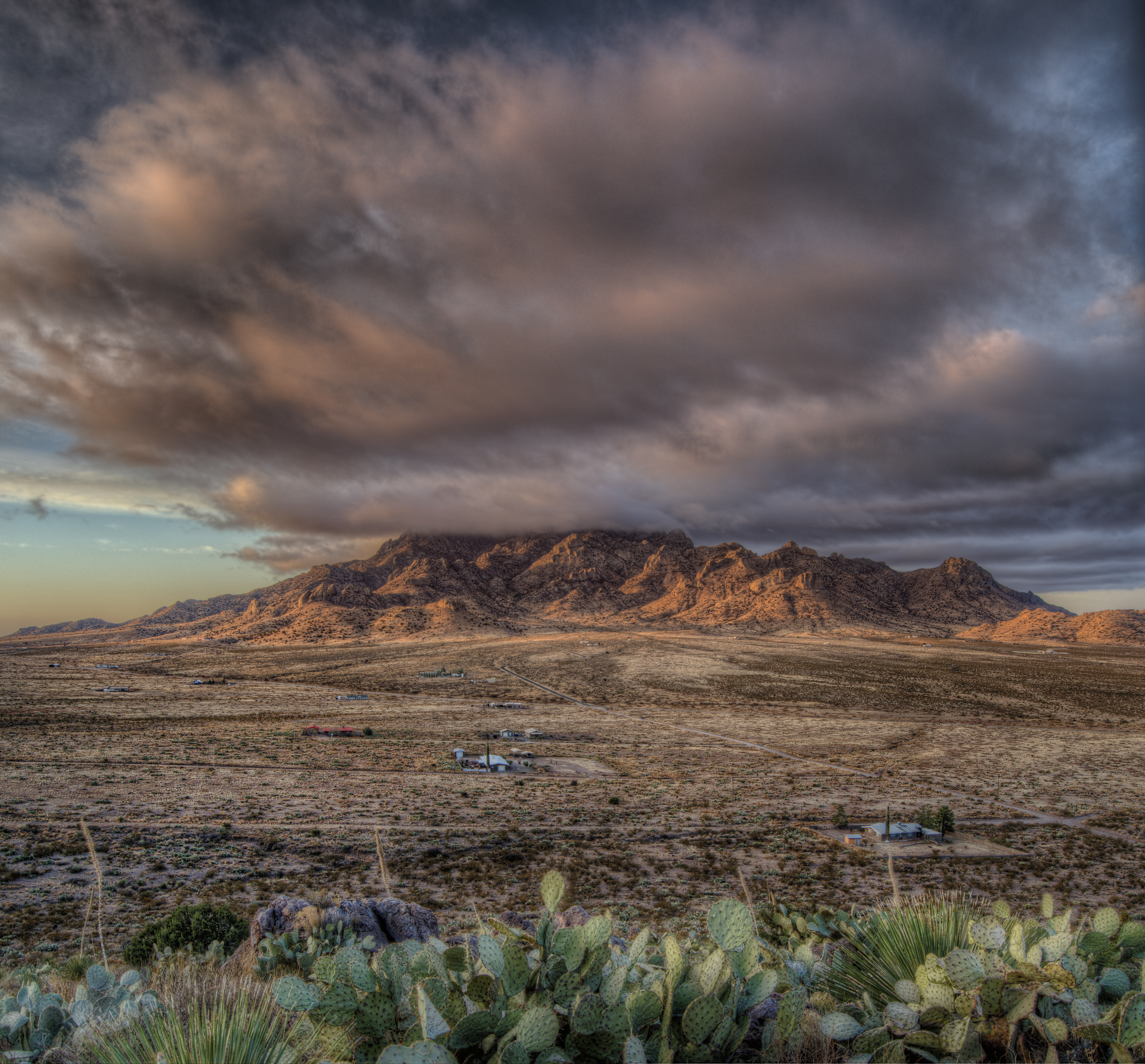 Looking south toward Florida Peak from Rockhound State Park, near Deming, NM. You can see the Needle's Eye Arch just below the clouds on the left horizon. I uploaded the full resolution image in case you want to zoom in on the Original size.